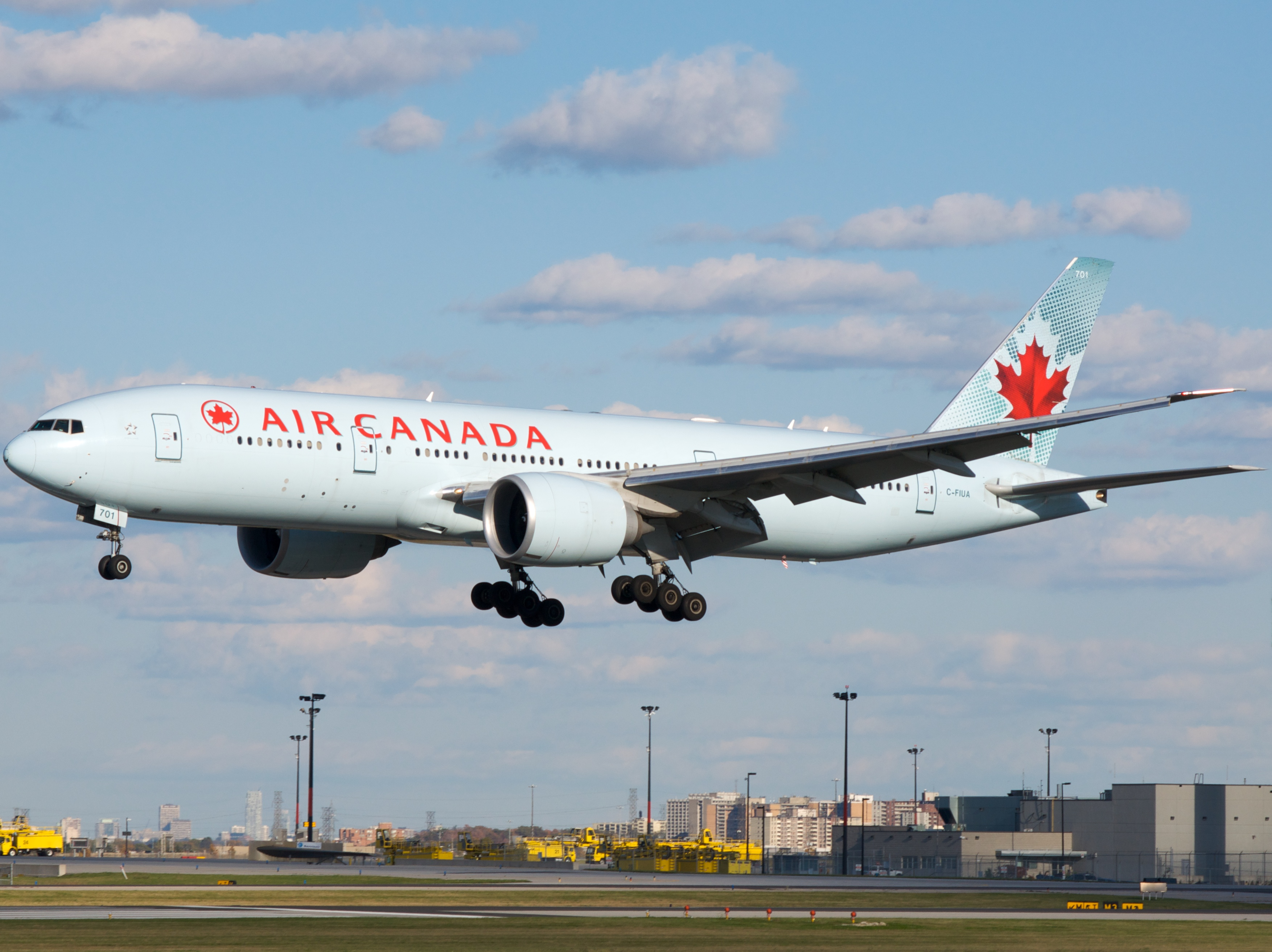 Air Canada 777-233/LR arriving on 33L at YYZ